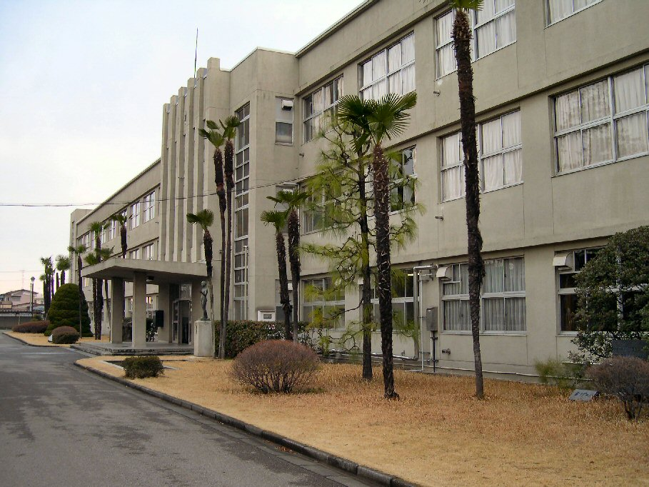 Old building of the Saitama Prefectural Fudooka High School